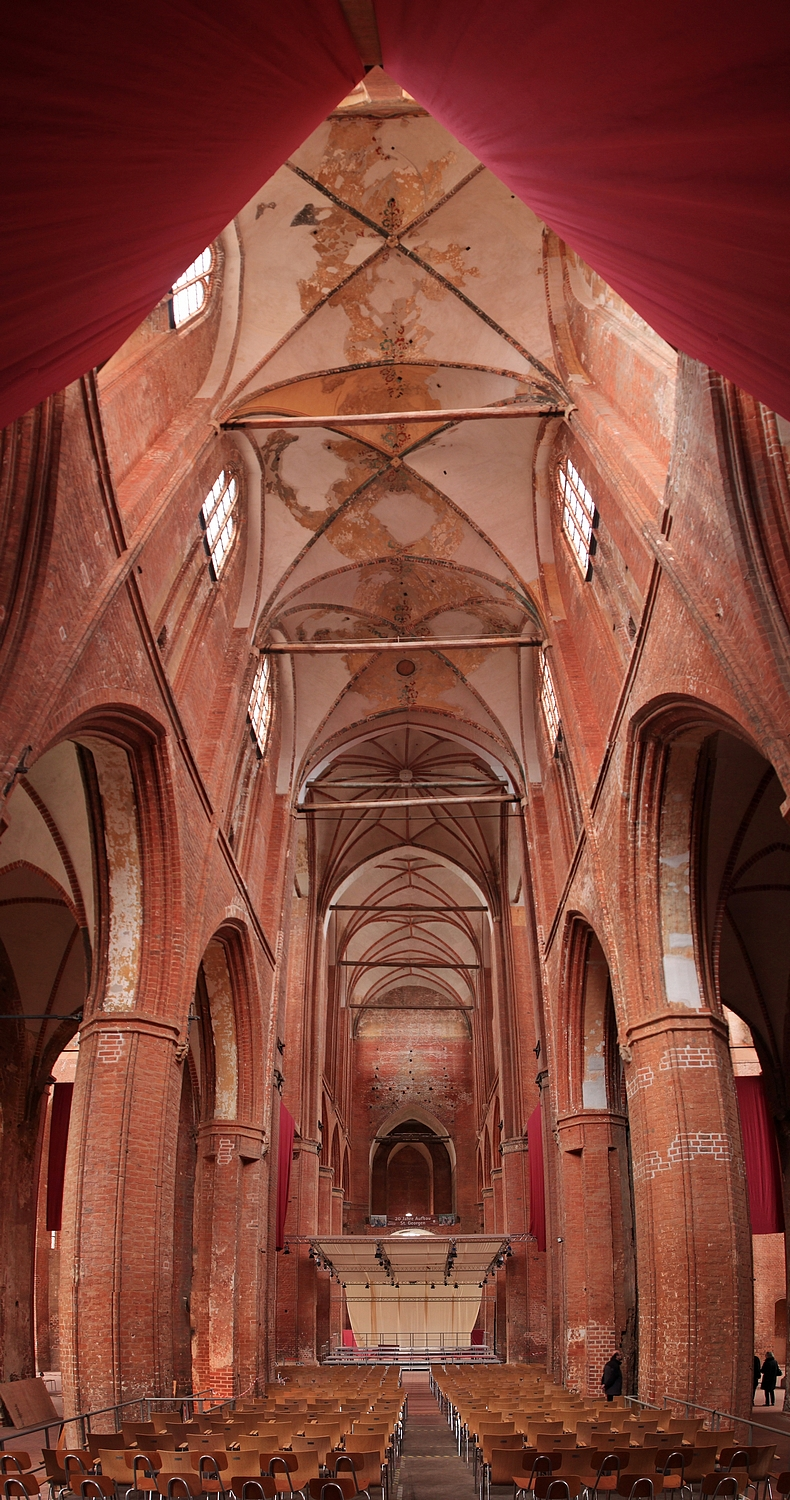 This photo shows the St.-Georgen-church in Wismar. The church is one of the three main churches of Wismar and a significant artifact of north German red-brick architecture. Originally built for craftsmen and tradesmen, its origins are to be found in the first half of the 13th century. Its construction can be traced back to the eventful middle ages and the days of the Reformation. In the 100 years of its construction, the church was often altered, but finally completed in 1594. During World War II St. Georgen, like so many other monuments, was severely damaged. Reparation and restoration work began in 1990 and was completed in 2010. The church is part of the UNESCO list of World Heritage Sites since 2002.